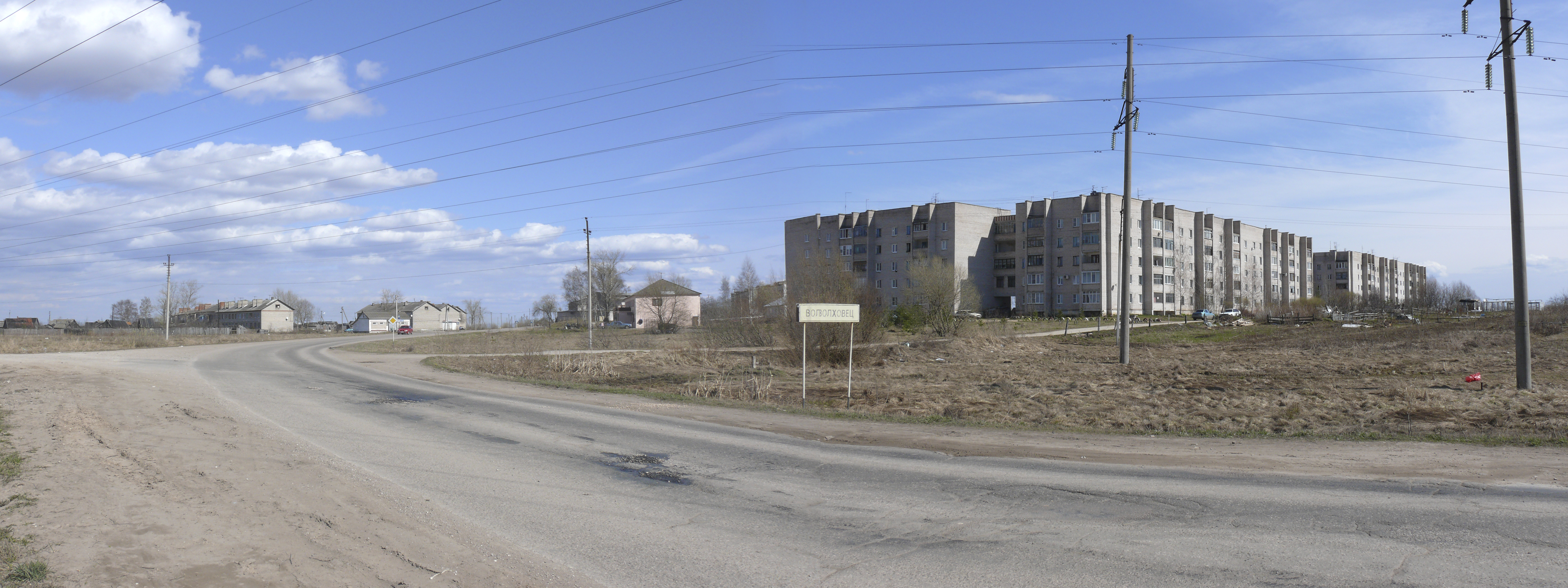 Volkhovets village. Novgorodsky district, Novgorod oblast, Russia